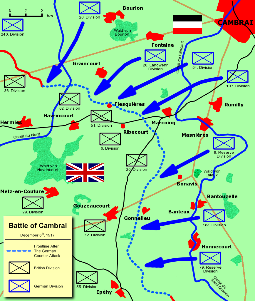 Description: Map of the Battle of Cambrai - German Counter-Offensive, english text Source: self-made by User:W.wolny Low-Res-Version: Image:509px-Schlacht von Cambrai - Truppen D-Angriff.png Painter: W.Wolny Retouch: Uv1234